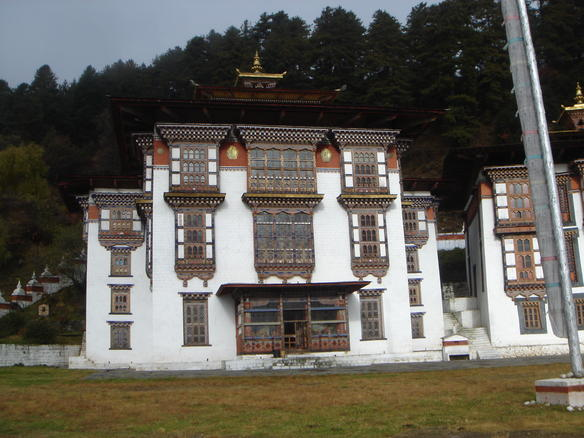 Kurje Lhakhang. monastery, Jakar.